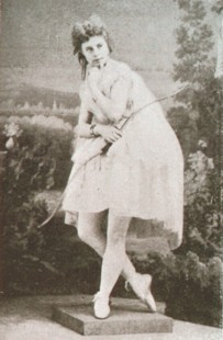 Photo of the ballerina Eugénie Fiocre (1845-1908) in the role of Cupid in the choreographer Arthur Saint-Léon (1821-1870) and the composer Ludwig Minkus's (1826-1817) ballet "Néméa, ou l'Amour Vengé".